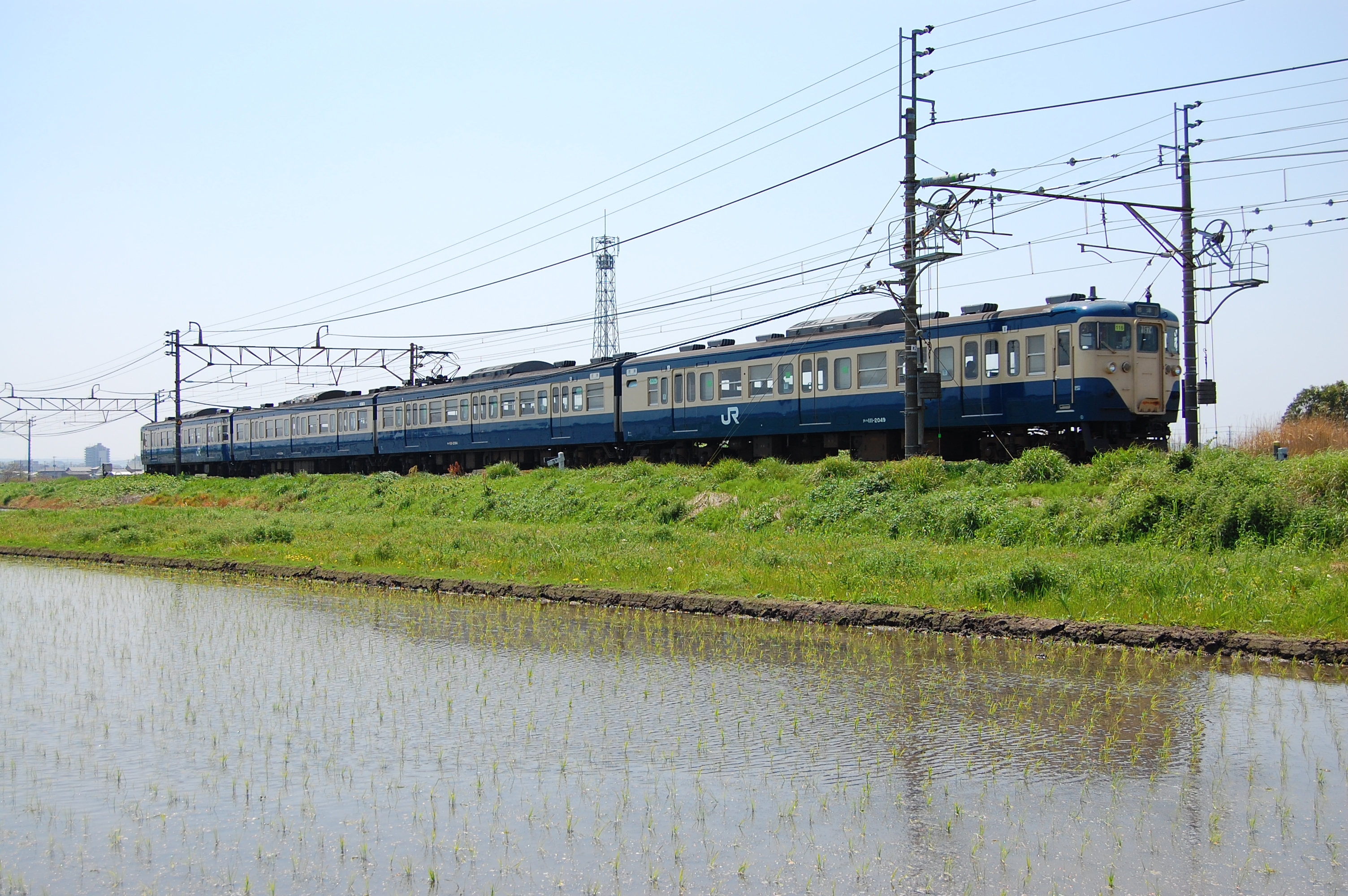 Scenery of kisarazu north area. Location is railroad crossing to between Kisarazu St. and Iwane St.